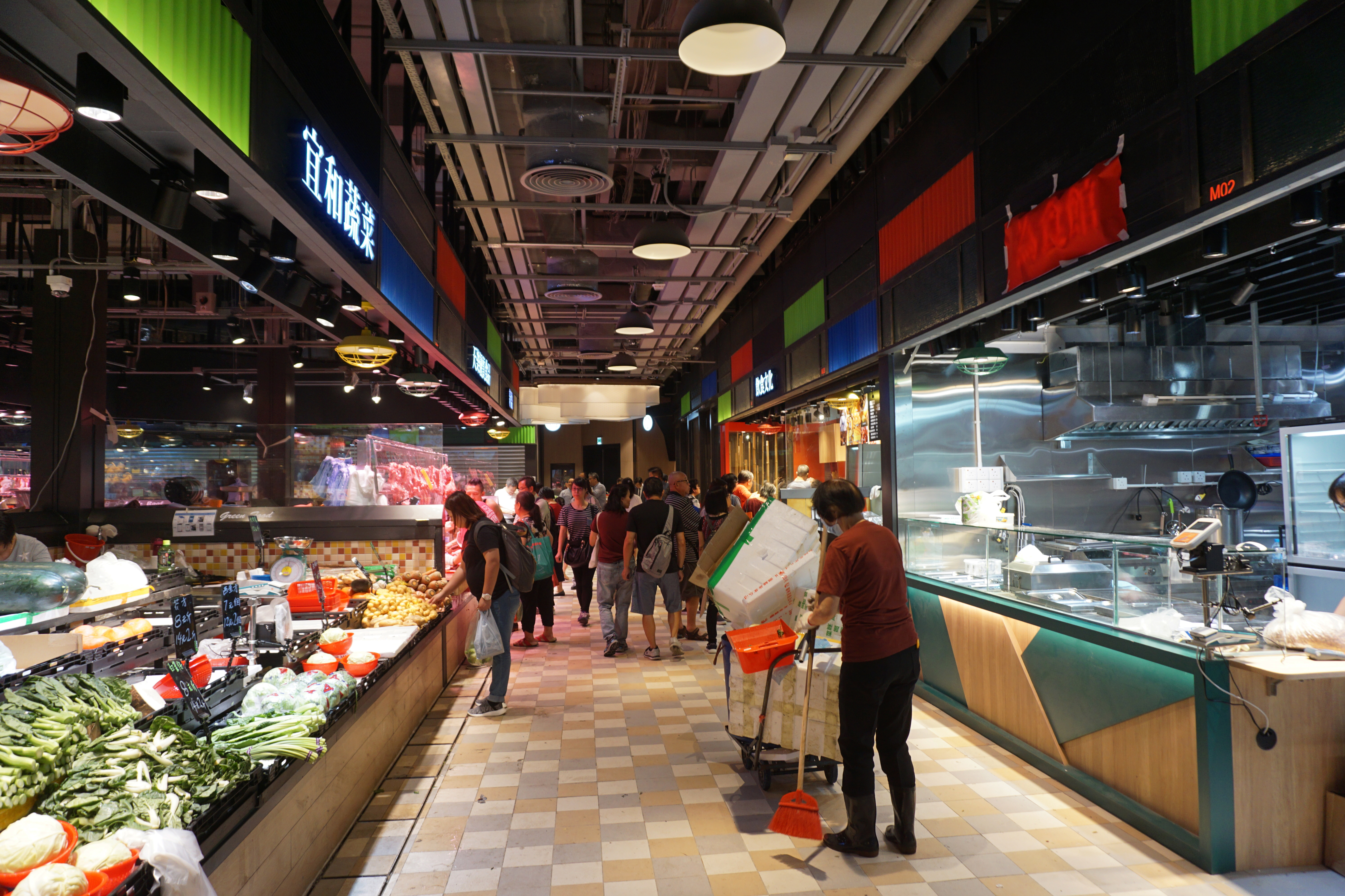 MCP Fresh in Po Lam, Hong Kong.